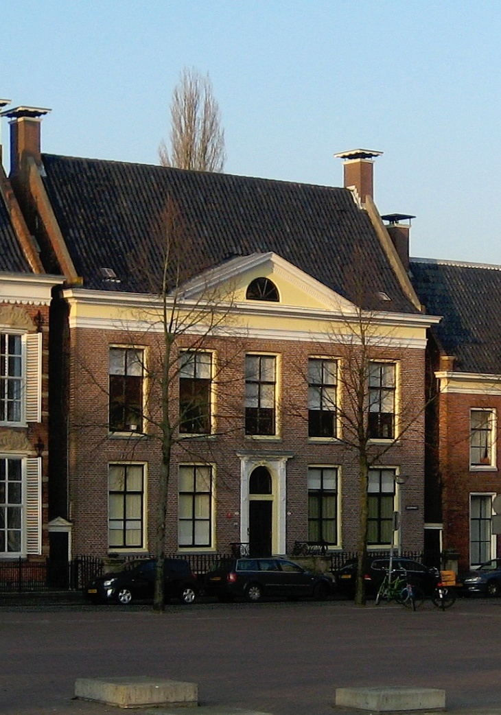 The Ossenmarkt 6 in the Dutch city of Groningen.